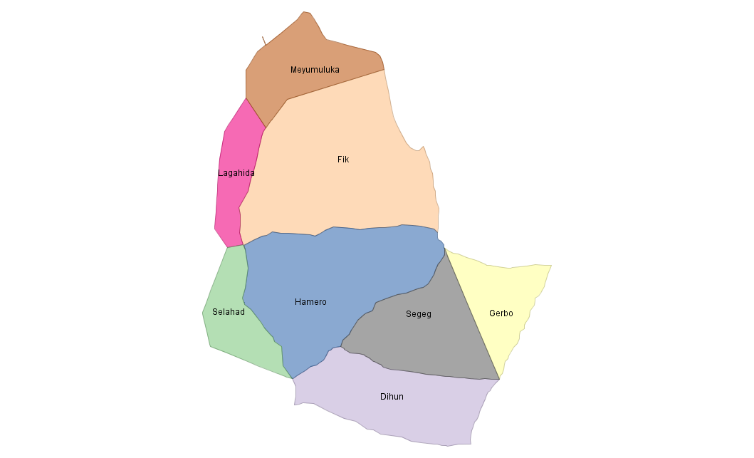 Fik Zone Map